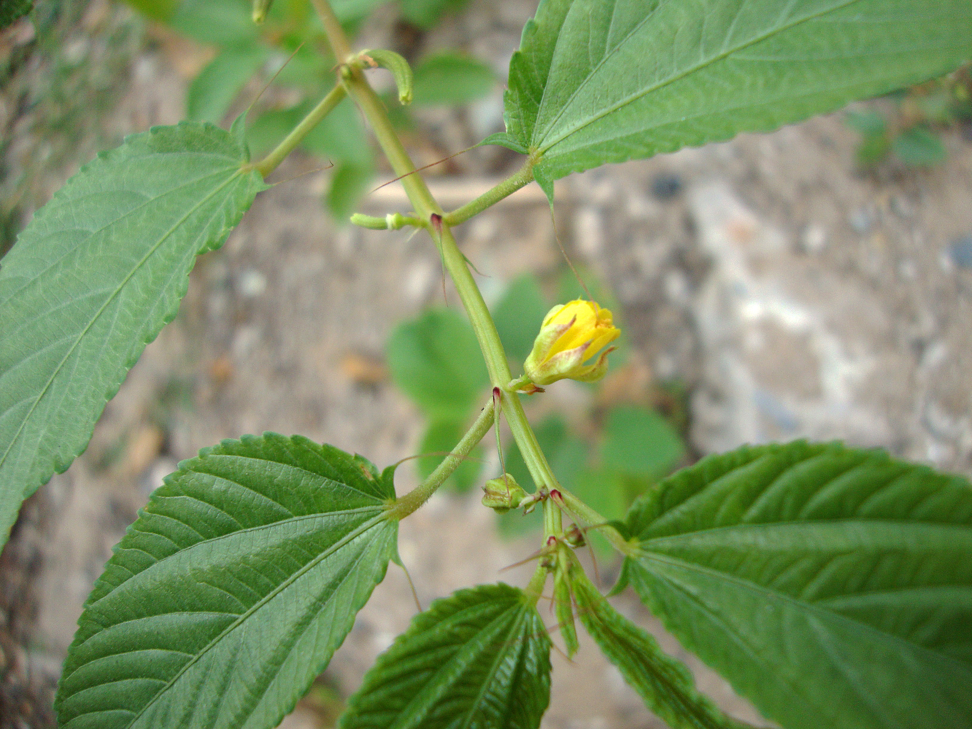 Corchorus olitorius L., 1753